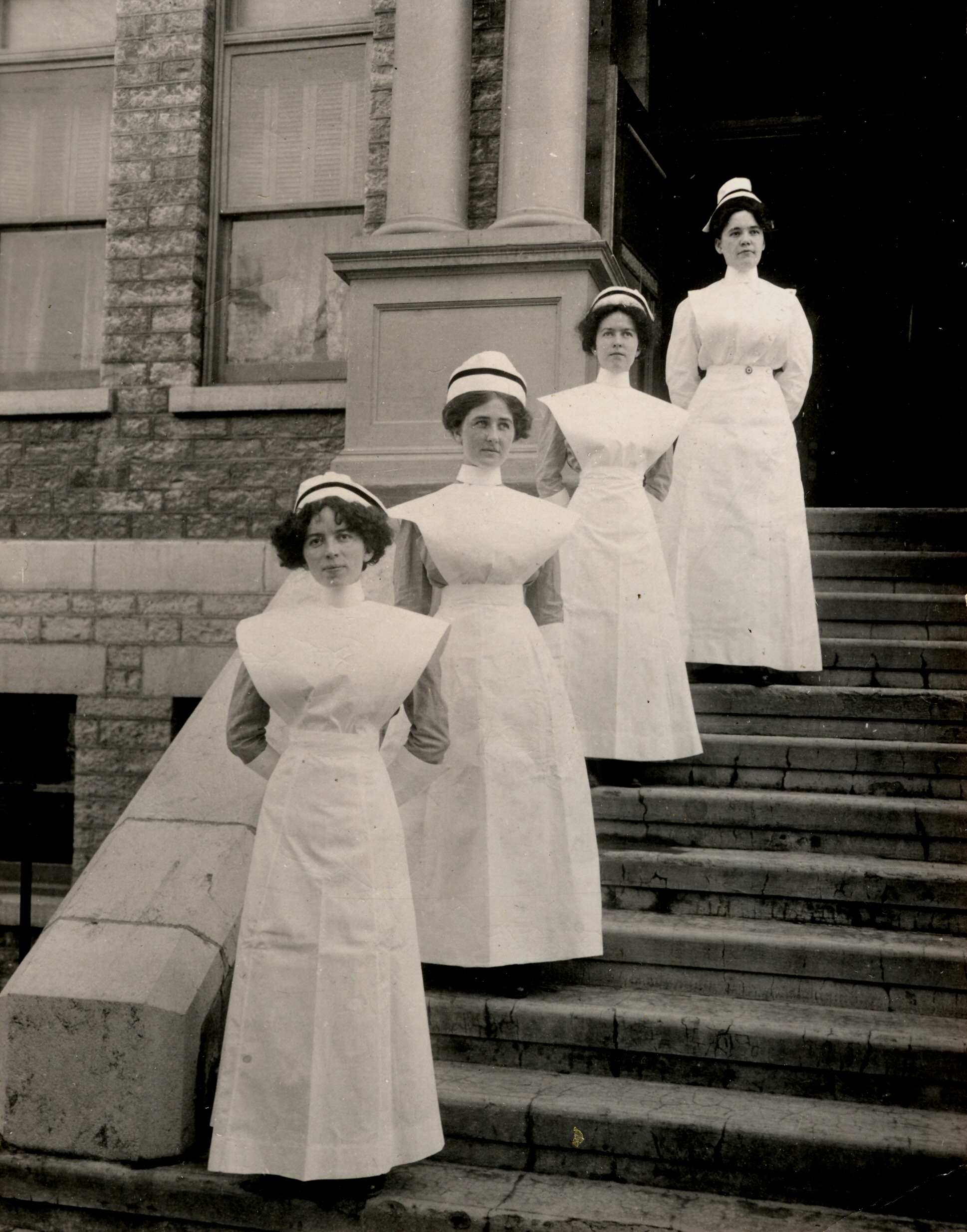 Photograph of the St. Joseph's School of Nursing, Hotel Dieu Hospital, Kingston, Ontario, Class of 1914, the first graduates of the school. Anna Legree, Mary Carlon, Jennie Legree, and School Superintendent Alice Donihee are depicted (left to right) standing on the steps of the 1909 wing of the Hosptial (at the corner of Brock and Sydenham Sts.).